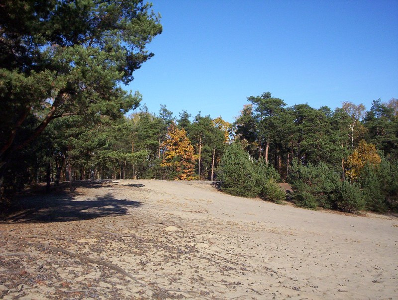 Dunes in Międzyborów, Poland.